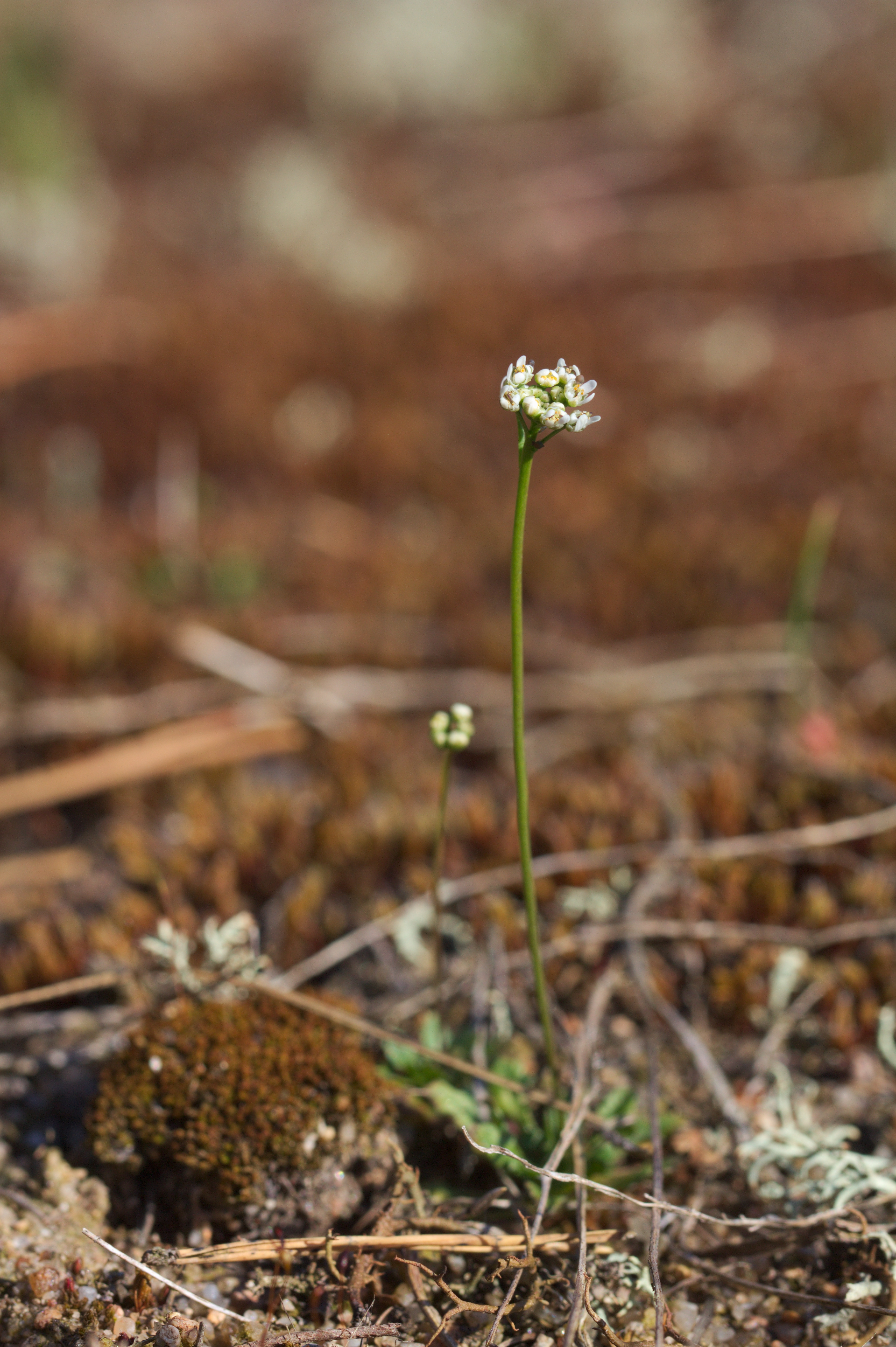 Teesdalia nudicaulis in natural monument Slepičí vršek in Jindřichův Hradec District, Czech Republic